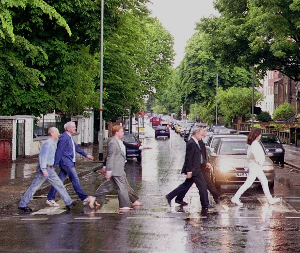 Cassini imaging team with Carolyn Porco in front, all dressed in costume, re-staging the famous Abbey Road photograph. June 2001. The Pauls are even barefoot and carrying cigarettes.